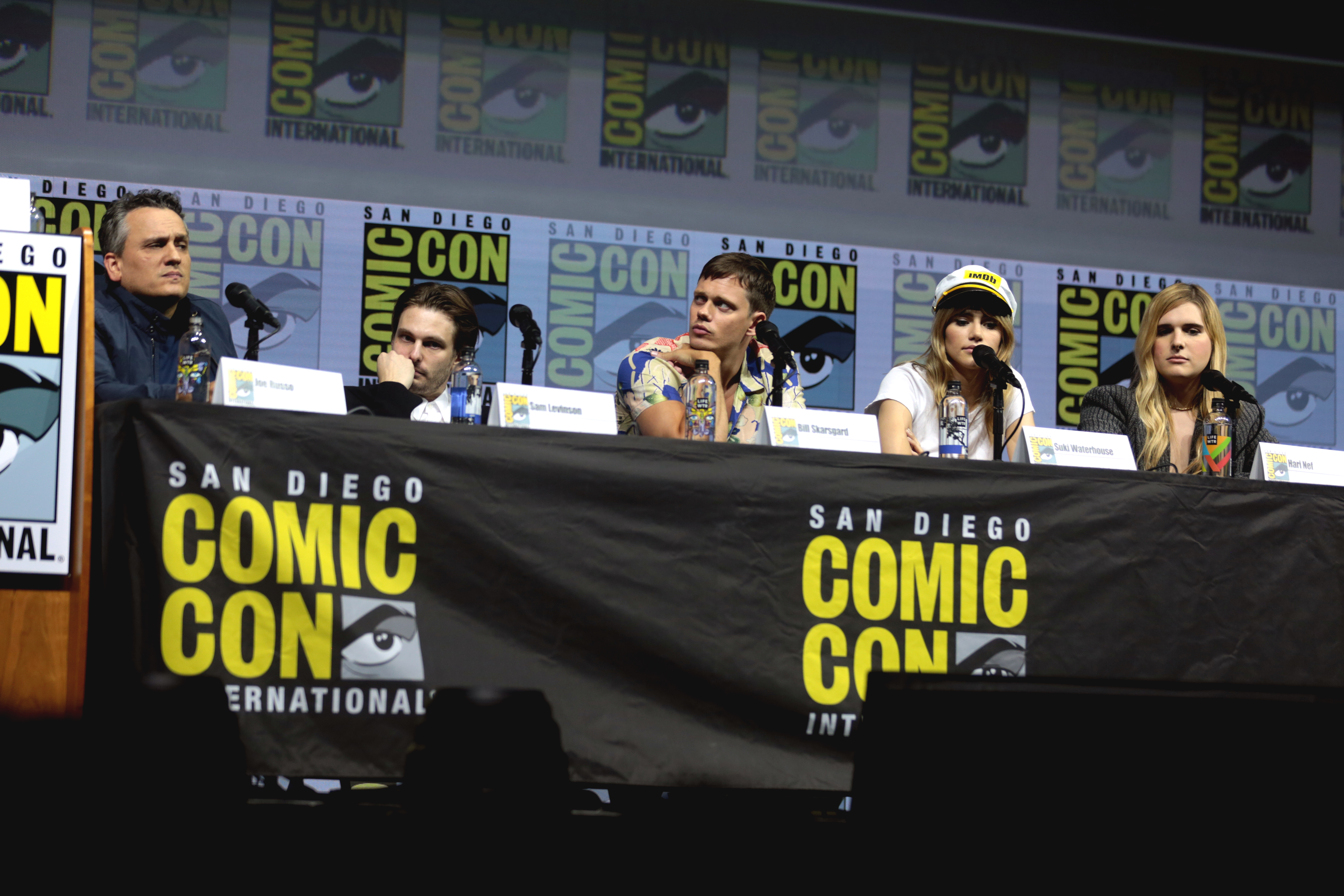 Joe Russo, Sam Levinson, Bill Skarsgård, Suki Waterhouse and Hari Nef speaking at the 2018 San Diego Comic Con International, for "Assassination Nation", at the San Diego Convention Center in San Diego, California.